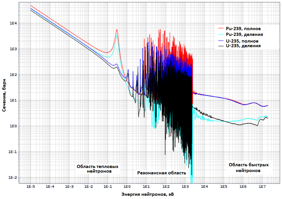 Cross sections U235 & Pu239